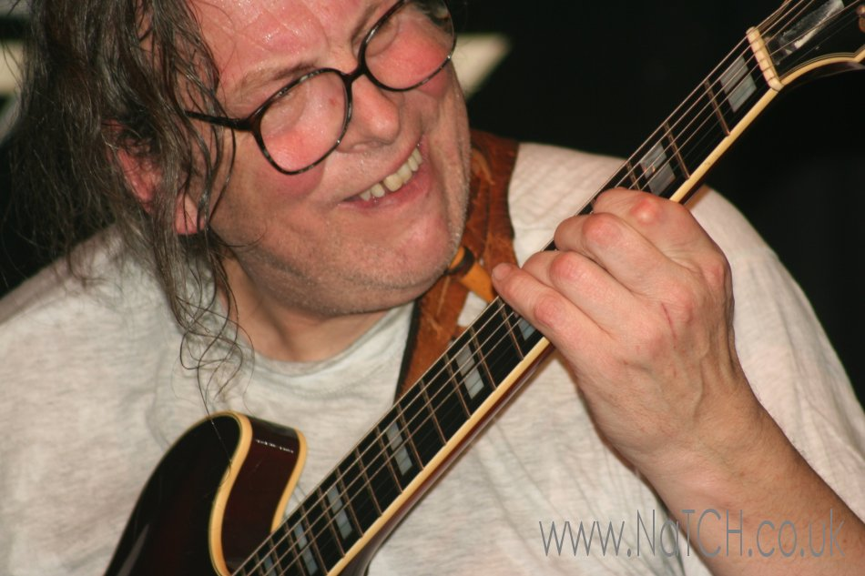 Phil Miler at the Vortex, London Sunday 29th October 2006 playing with In Cahoots at the Elton Dean and Pip Pyle memorial concert.